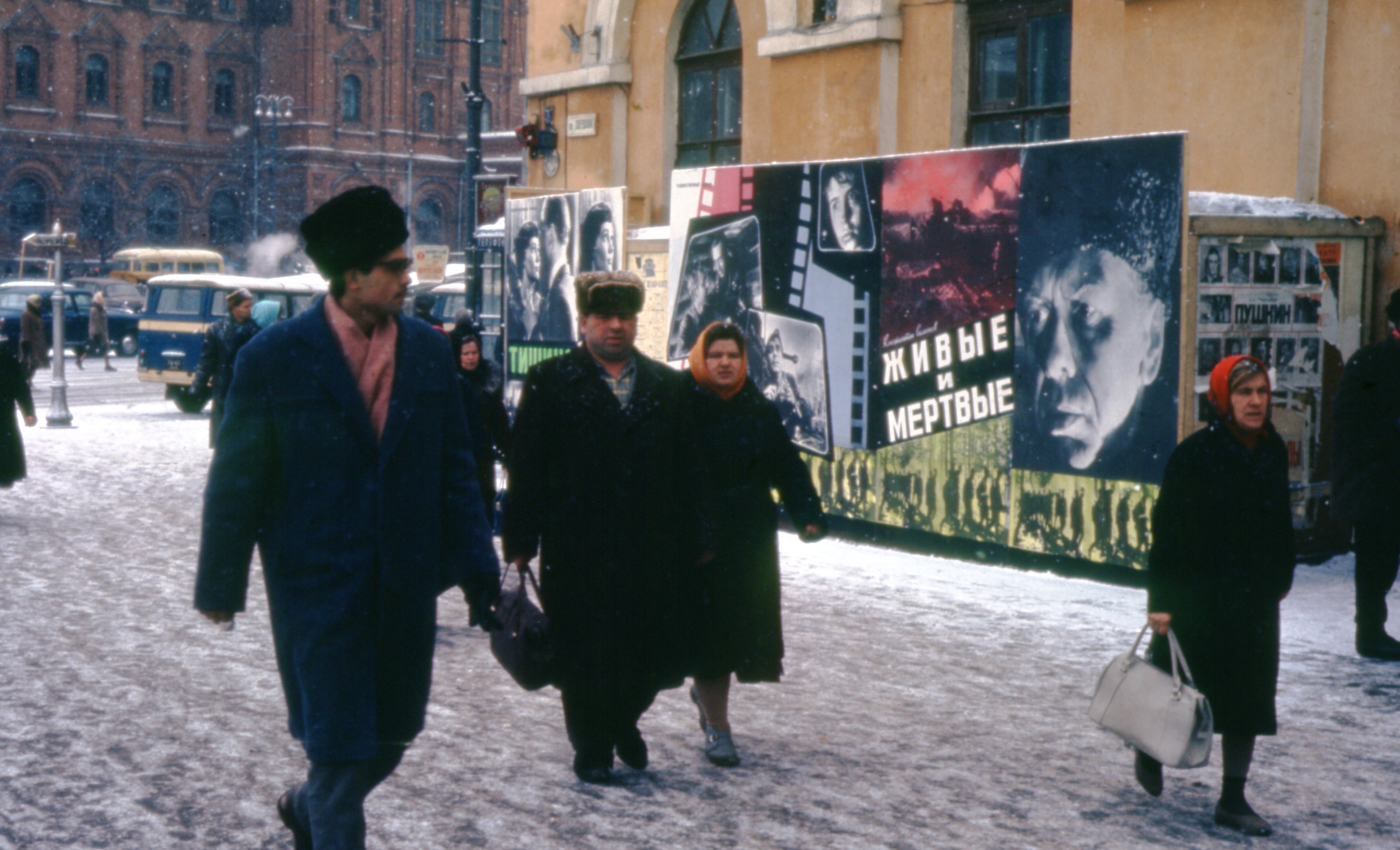 These photos were taken by Thomas T. Hammond during his trip to the Soviet Union. This image features people walking on the streets in the snow. // Location: west side of present-day Revolution Square (although the street sign says Sverdlova Square). The two-storey yellow building will soon be demolished for the expansion of Moskva Hotel. The red building is the former City Duma building, later Lenin Museum, and now the museums of 1812 war. The film poster for the 1964 Alive and Dead sets the time.